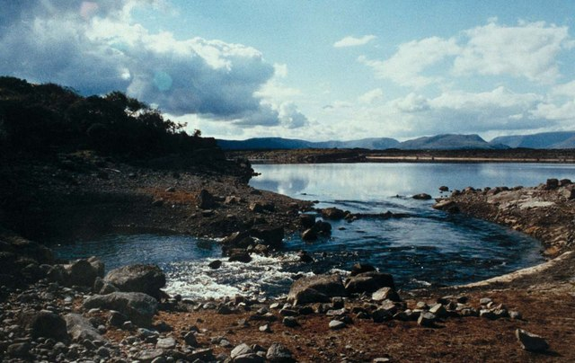 Swallow Hole, Castle Bay, Lough Mask. Being perched on limestone, the water flowing from Lough Mask south to Lough Corrib has created many underground routes.In summer all of the water takes this course. This is the largest of the sinks in Castle Bay.